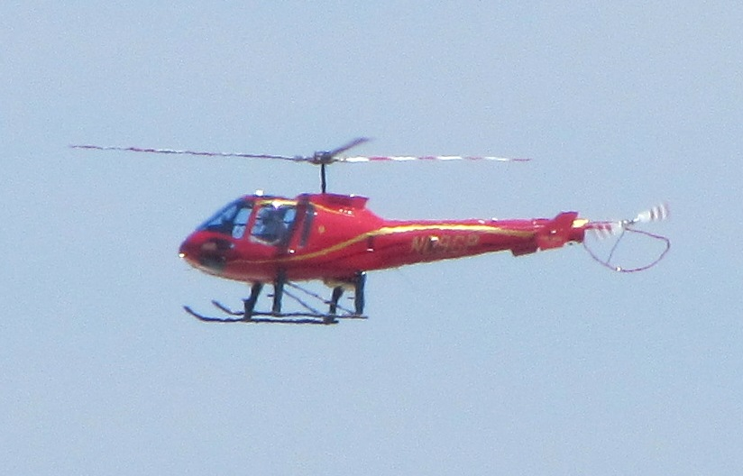 Entstrom 480B